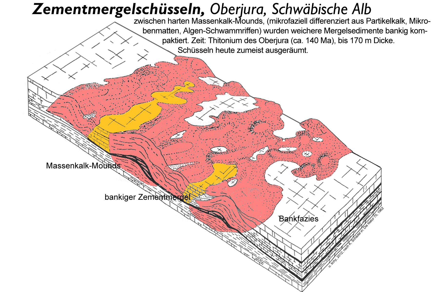 Model of jurassic sedimentary basins, where marine calcareous detritus were subject to compaction and bedding. The sedimentary beds formed in between significantly harder reefal mounds (German: Massenkalk), which are not layered. The reefal mounds are a typical formation in Late Jurassic of the Swabian Jura.The basins (yellow) today are more or less eroded empty. Slower erosion of the harder mounds made the basins morphologically significant.